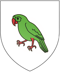 Arms of Thomas Parlby (1727–1802) Stone Hall, Stonehouse, in Plymouth, Devon: Argent, a parrot vert. Arms not recognised by the College of Arms in London, but were used by him, as visible e.g. on a marble chimneypiece in Stover House, Devon, the home of his sister Mary Parlby. See letter to Stover school from College of Arms (Chester Herald) dated 23 November 2004[1]